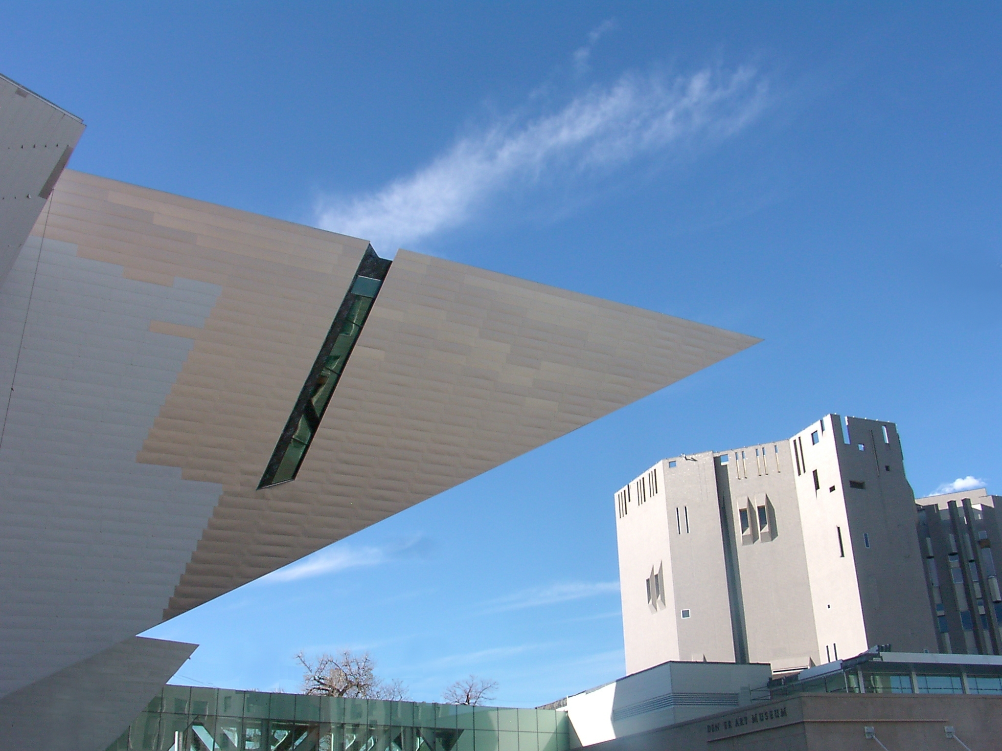 Hamilton Building, Nearing Completion